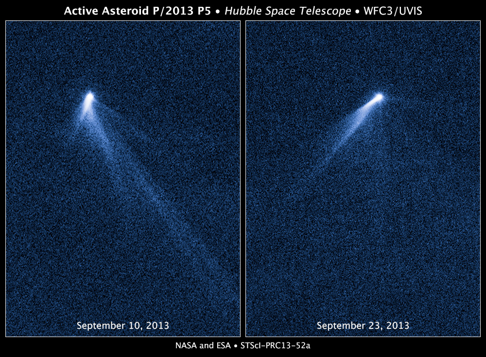 Asteroid P/2013 P5 version 2